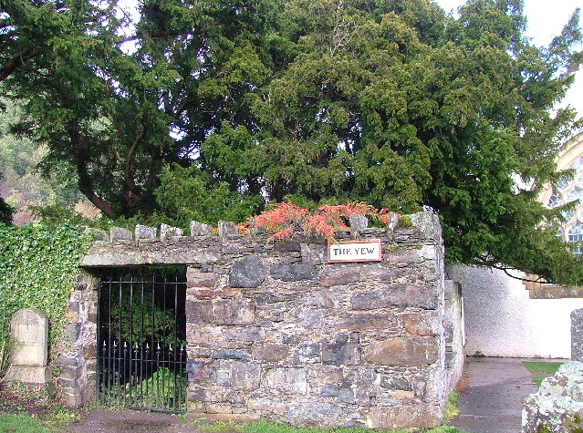 Fortingall Yew, Scotland - the oldest living creature in Europe